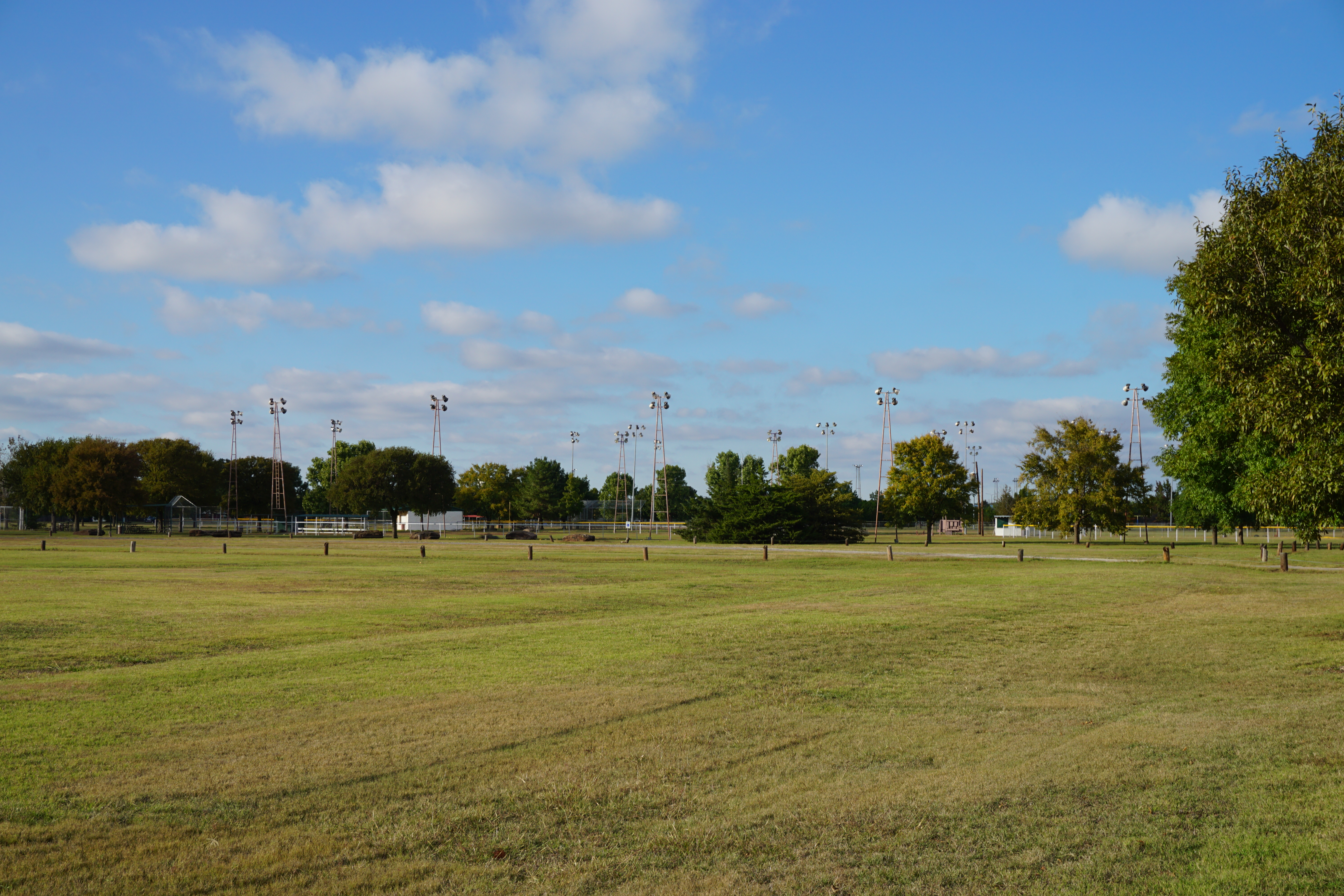 Lake Wichita Park in Wichita Falls, Texas (United States).